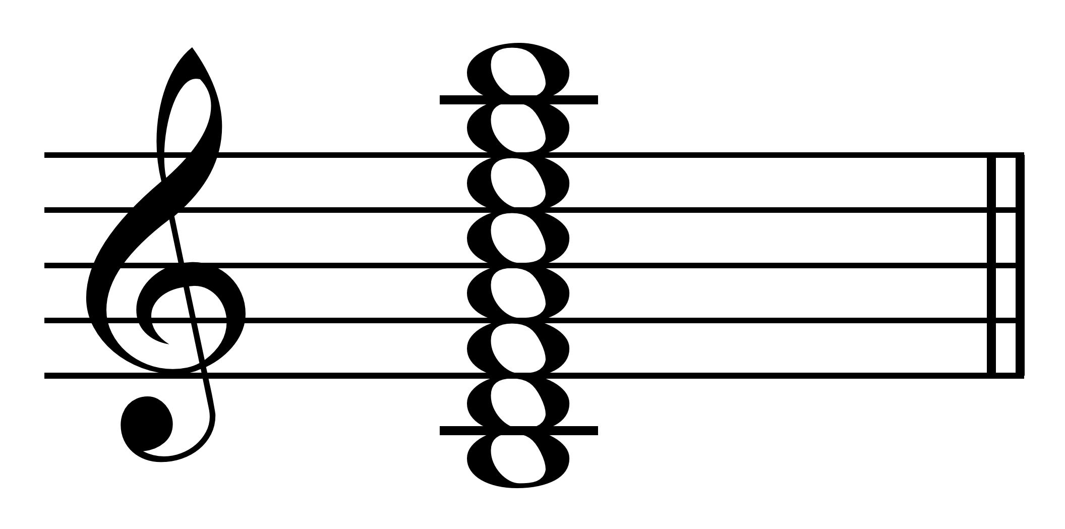 Full diatonic fifteenth chord from Listz on B